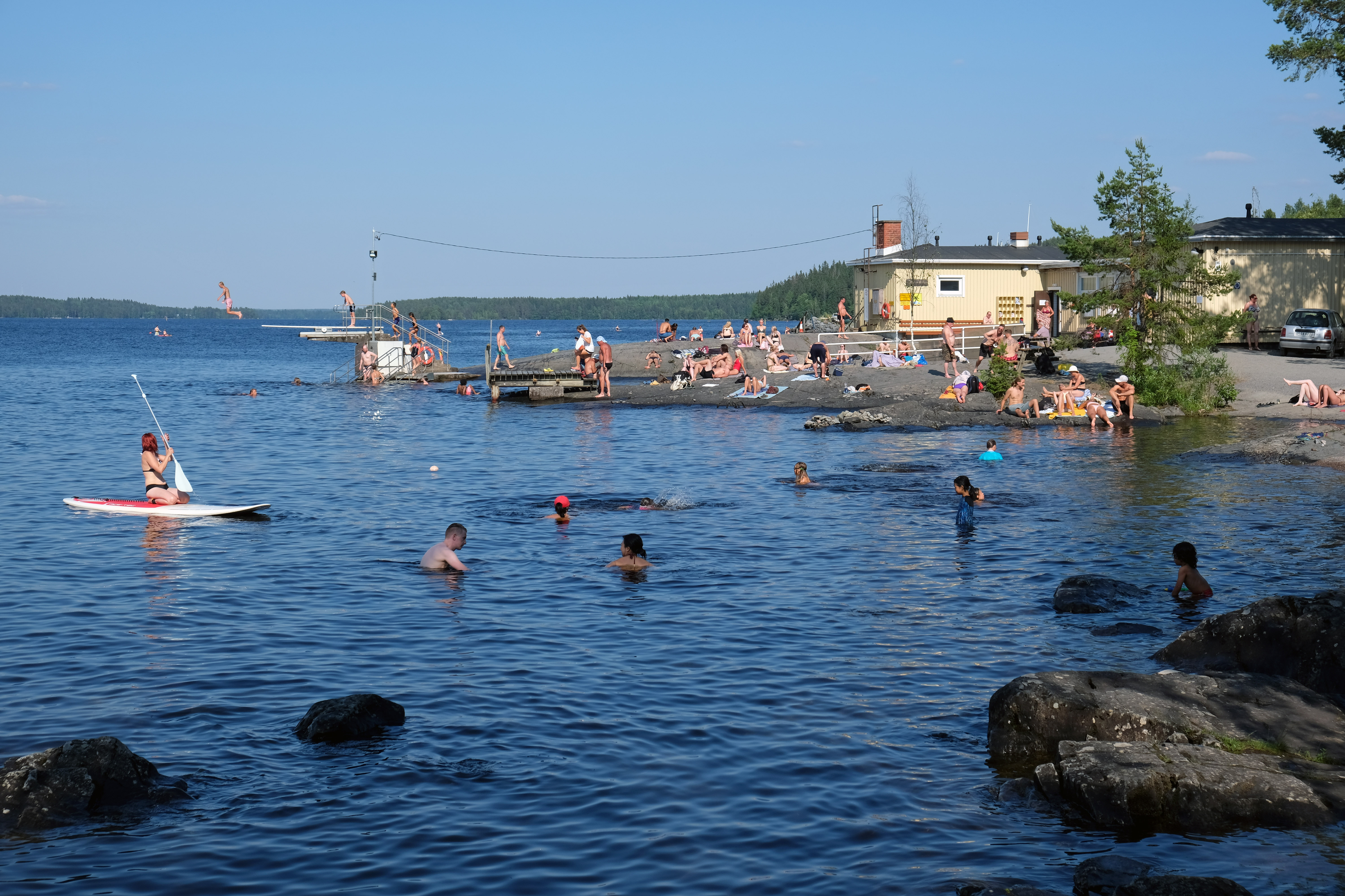 Rauhanniemen public bath, Tampere.